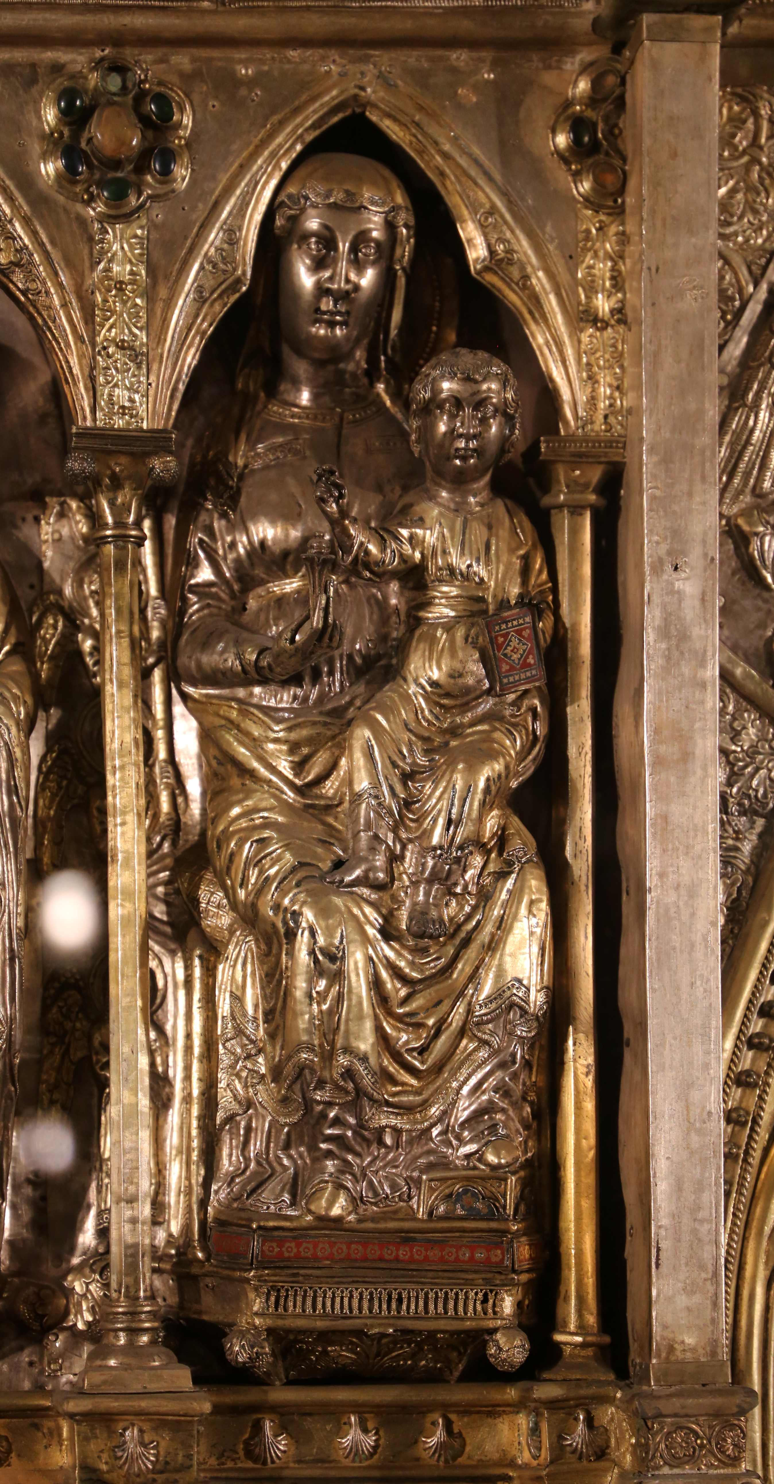 Silver Altar of Saint James